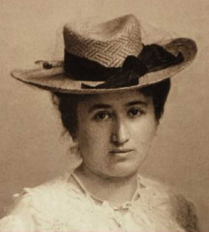 Rosa Luxemburg (1871–1919) was a Polish-born German Marxist political theorist, socialist philosopher, and revolutionary.